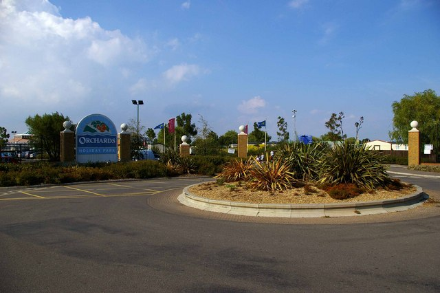 Orchards Roundabout. This is roundabout is at the entrance to Orchards Holiday Park in Point Clear.